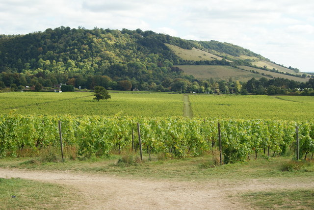 View Towards Box Hill, Surrey The steep slopes of Box Hill can be seen in the distance, with Denbies Wine Estate in the foreground.